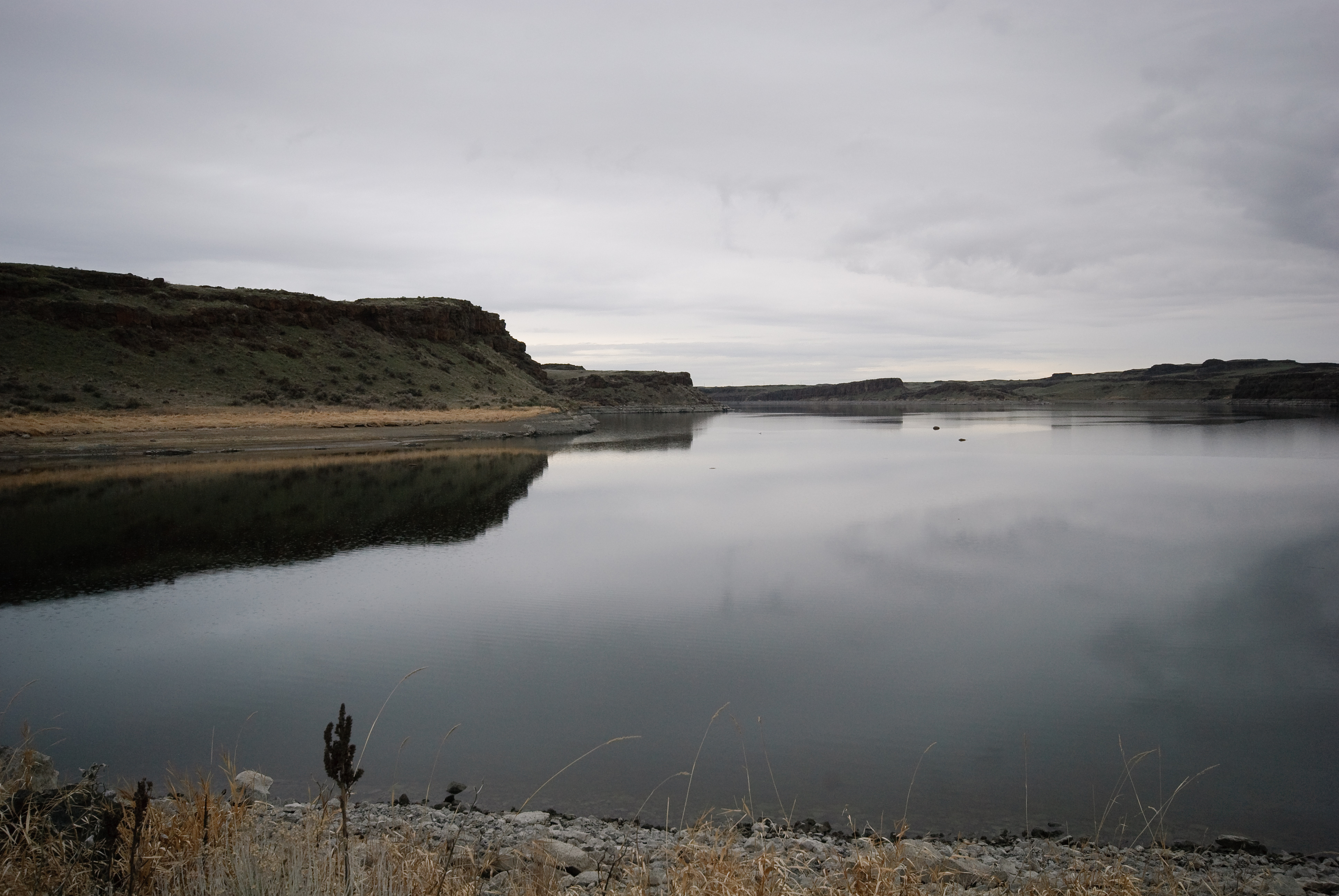 Soda Lake, Columbia NWR. From atop the Soda Lake Dam